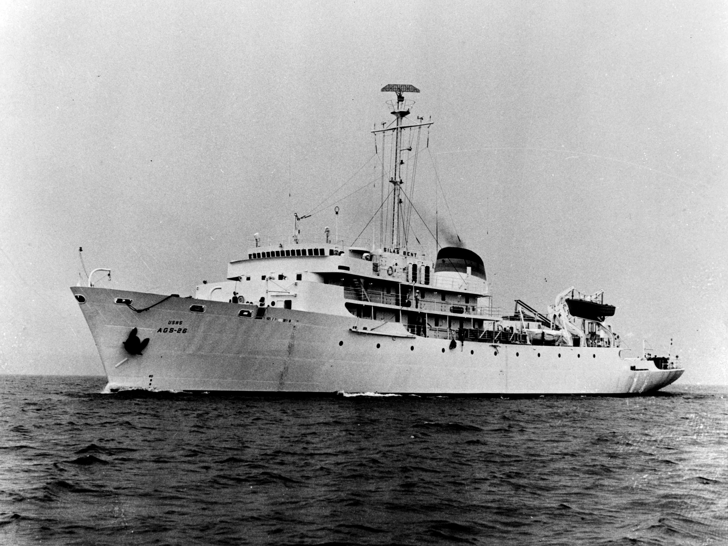 The U.S. Military Sealift Command surveying ship USNS Silas Bent (T-AGS-26) underway, circa 1965.